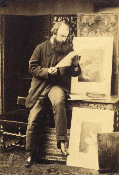 Myles Birket Foster (1825-1899) English painter